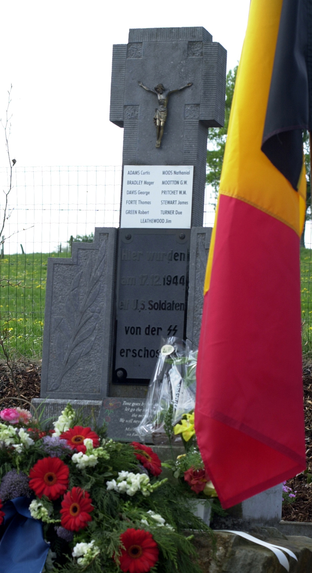 Flowers adorn one of three monuments at the Wereth 11 Memorial, dedicated to a group of black soldiers killed by the German SS during the early stages of the Battle of the Bulge.